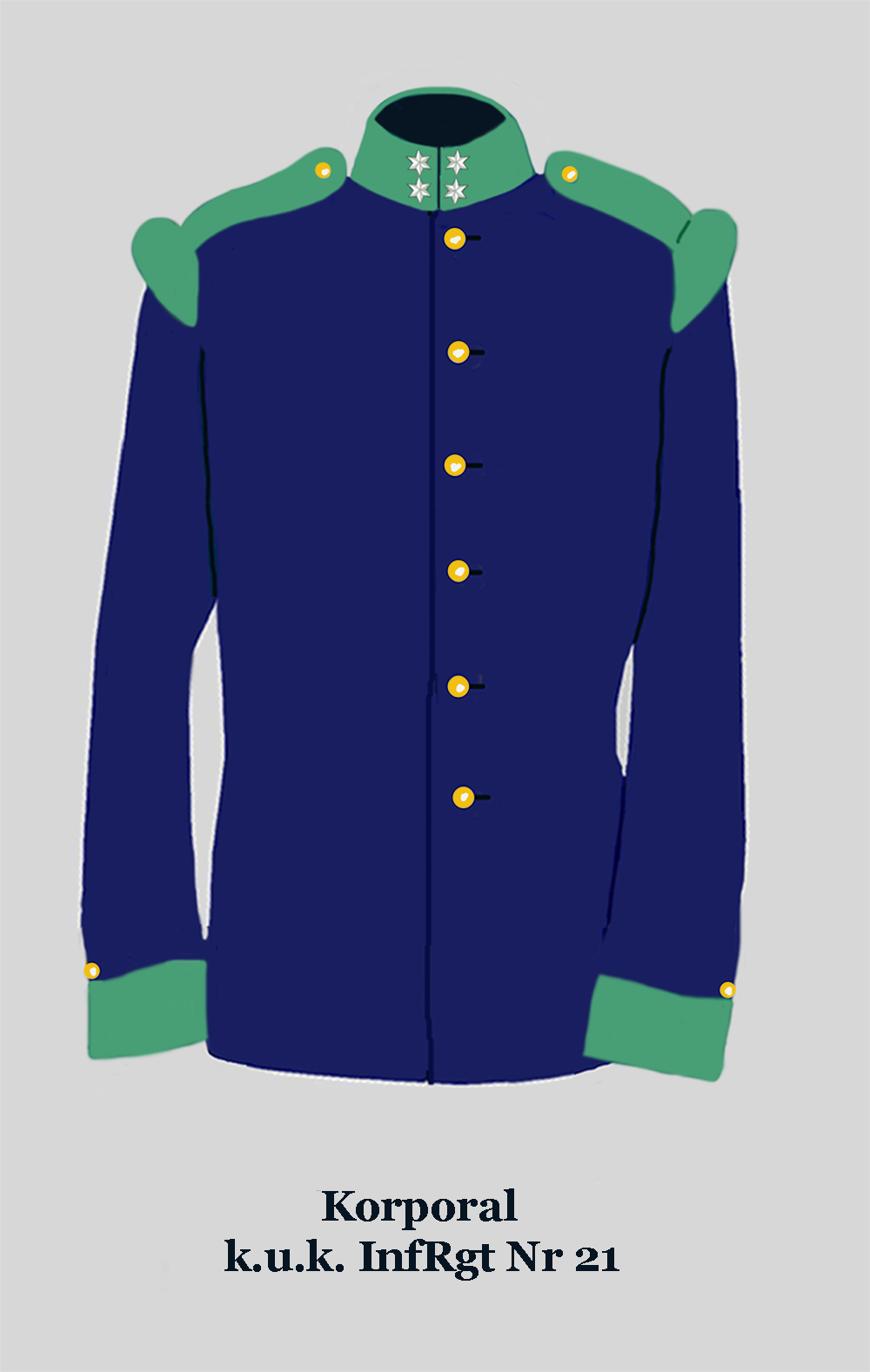 Corporal of the k.u.k. german 21st Infantry Regiment (Collar sea-green, buttons yellow)